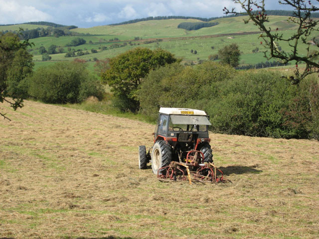 Haymaking time at Groes Farm, near to Llanfihangel-Yng-Ngwynfa, Powys, Wales. The operator was raking hay by hand (obscured by the tractor).